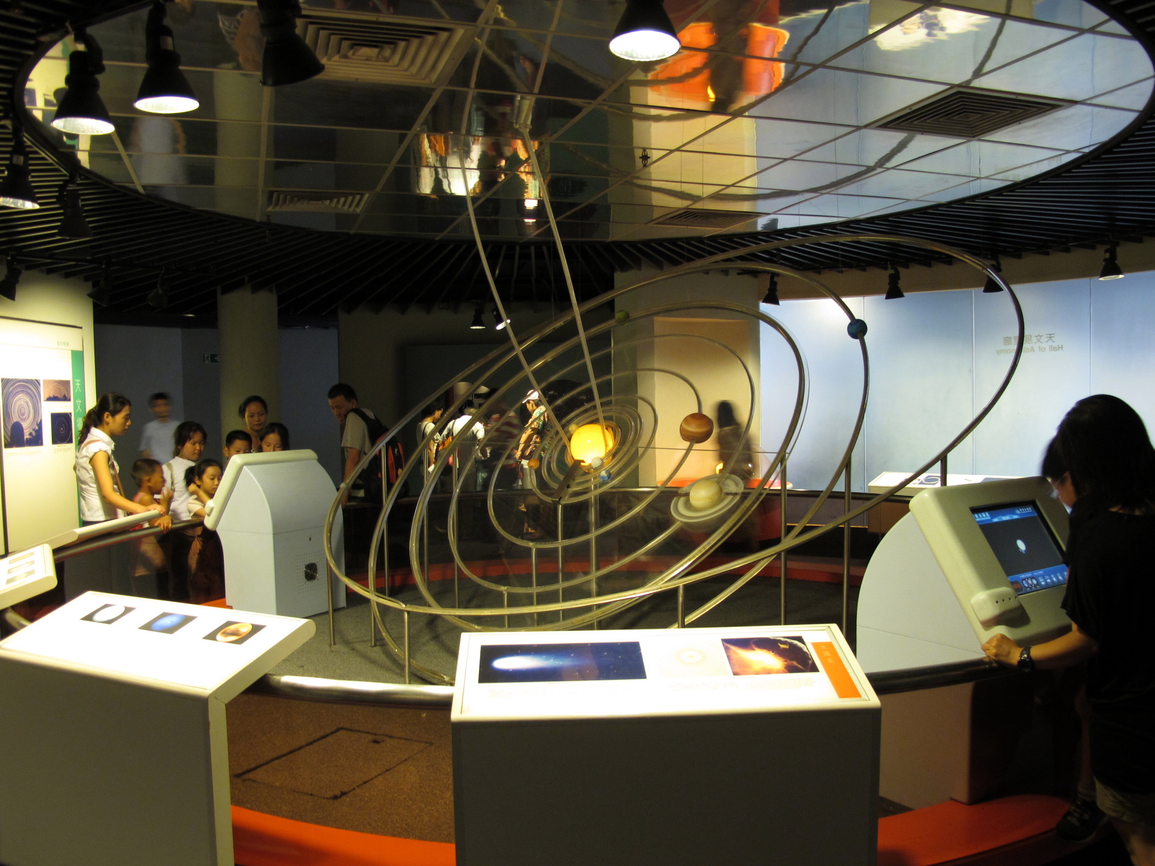 HK Space Museum Hall of Astronomy Solar System Model